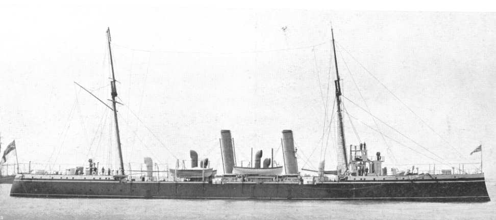 Photograph of British cruiser HMS Pelorus.